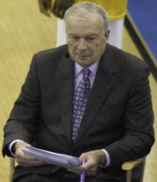 Digger Phelps on ESPN This file has been extracted from another file: ESPN College Game Day team.jpg